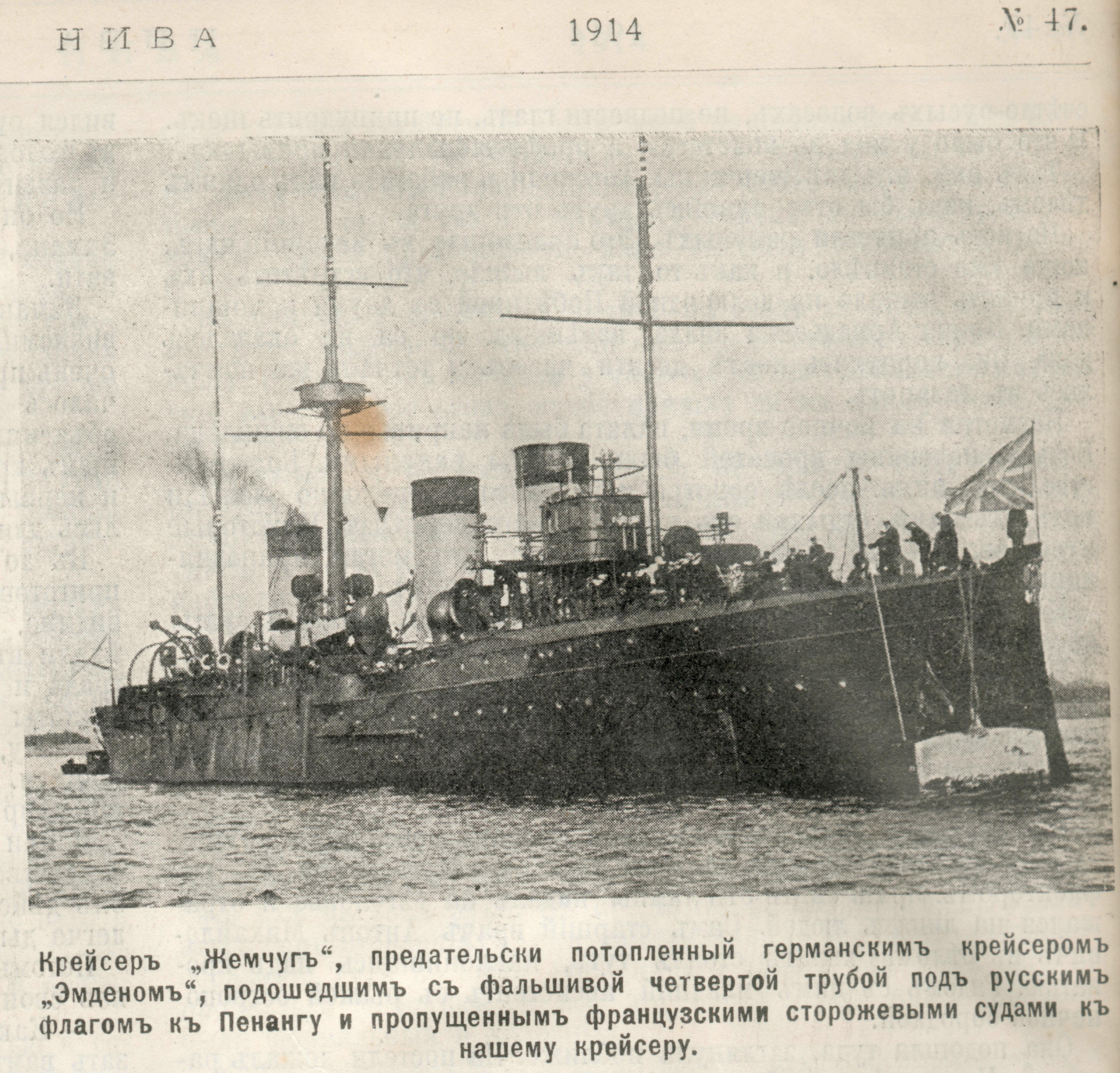 Imperial Russian Cruiser Zhemchug.